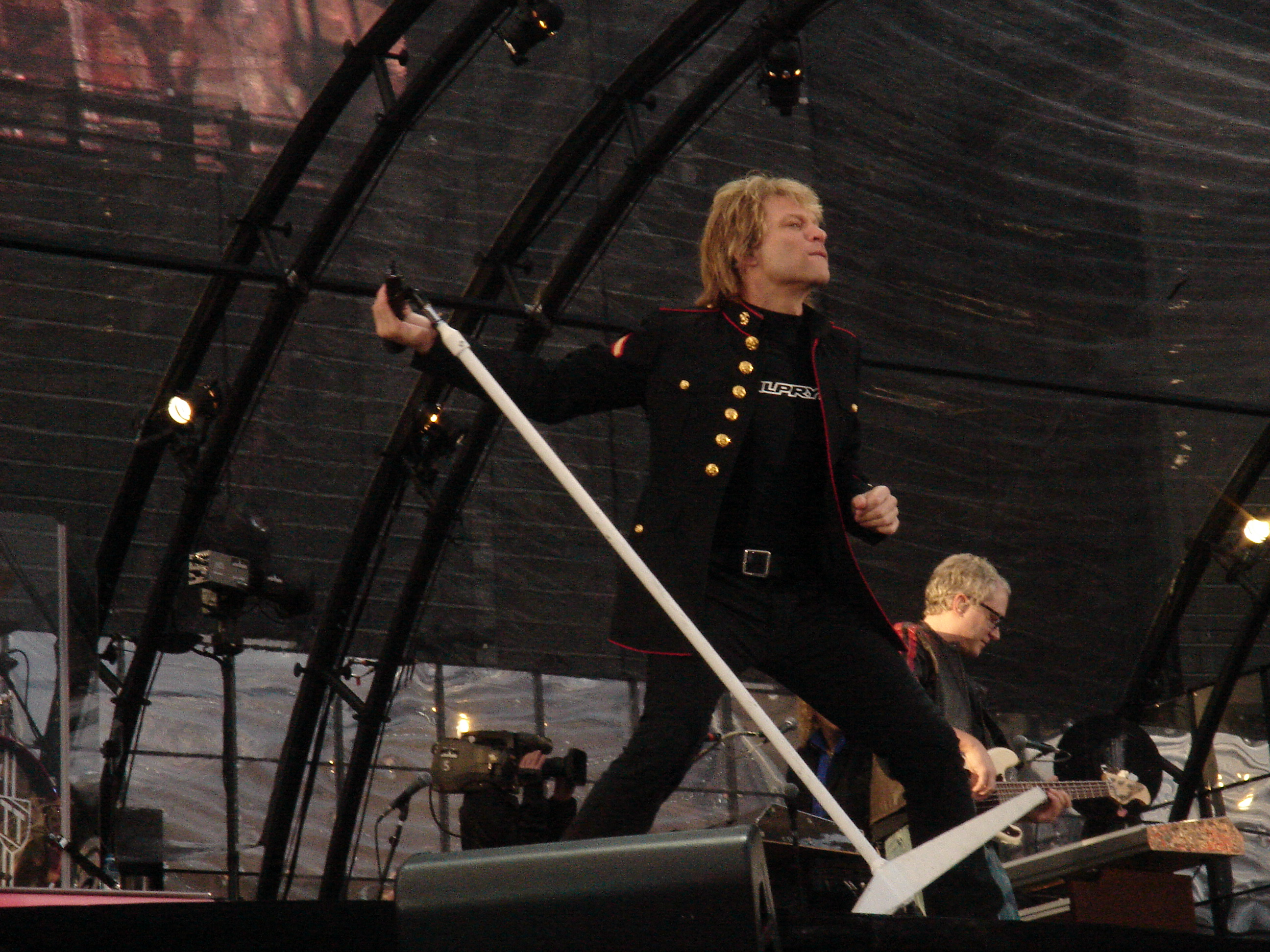 Jon Bon Jovi on stage live at Dublin May 2006.